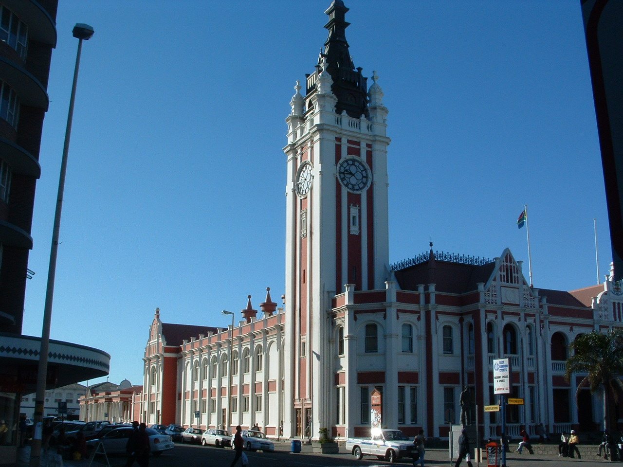 East London Town Hall